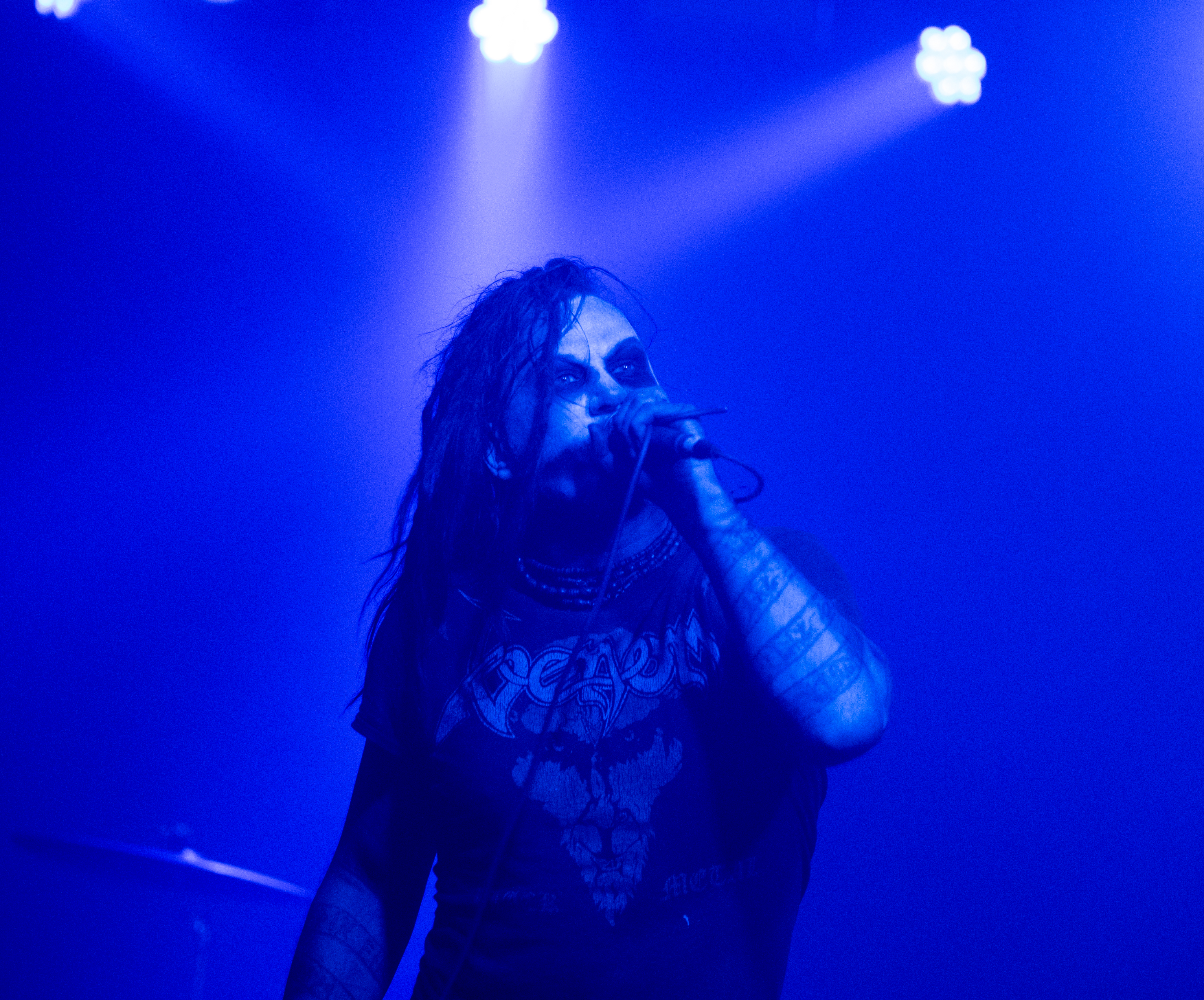 Mortiis at Voodoo Lounge Dublin, Ireland. 23 October 2016